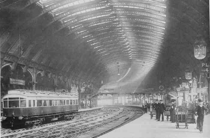 1903 Petrol Electric Autocar of the North Eastern Railway at York Station. Date unknown, most likely pre-First World War